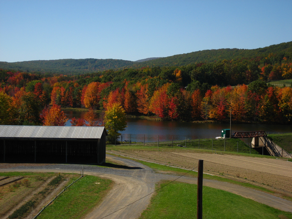 Beautiful view next to 322 East, near Spring Mills, Pennsylvania